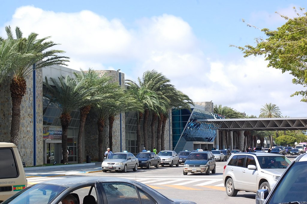 Santiago Mariño Airport, Porlamar.